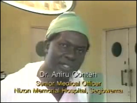 Screenshot of Dr. Aniru Conteh from the CDC documentary, "Lassa" (1989).